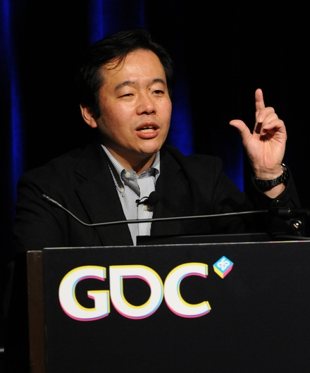 Mario Kart and 3DS producer Hideki Konno at the GDC 2011 talking about the 3DS' development.